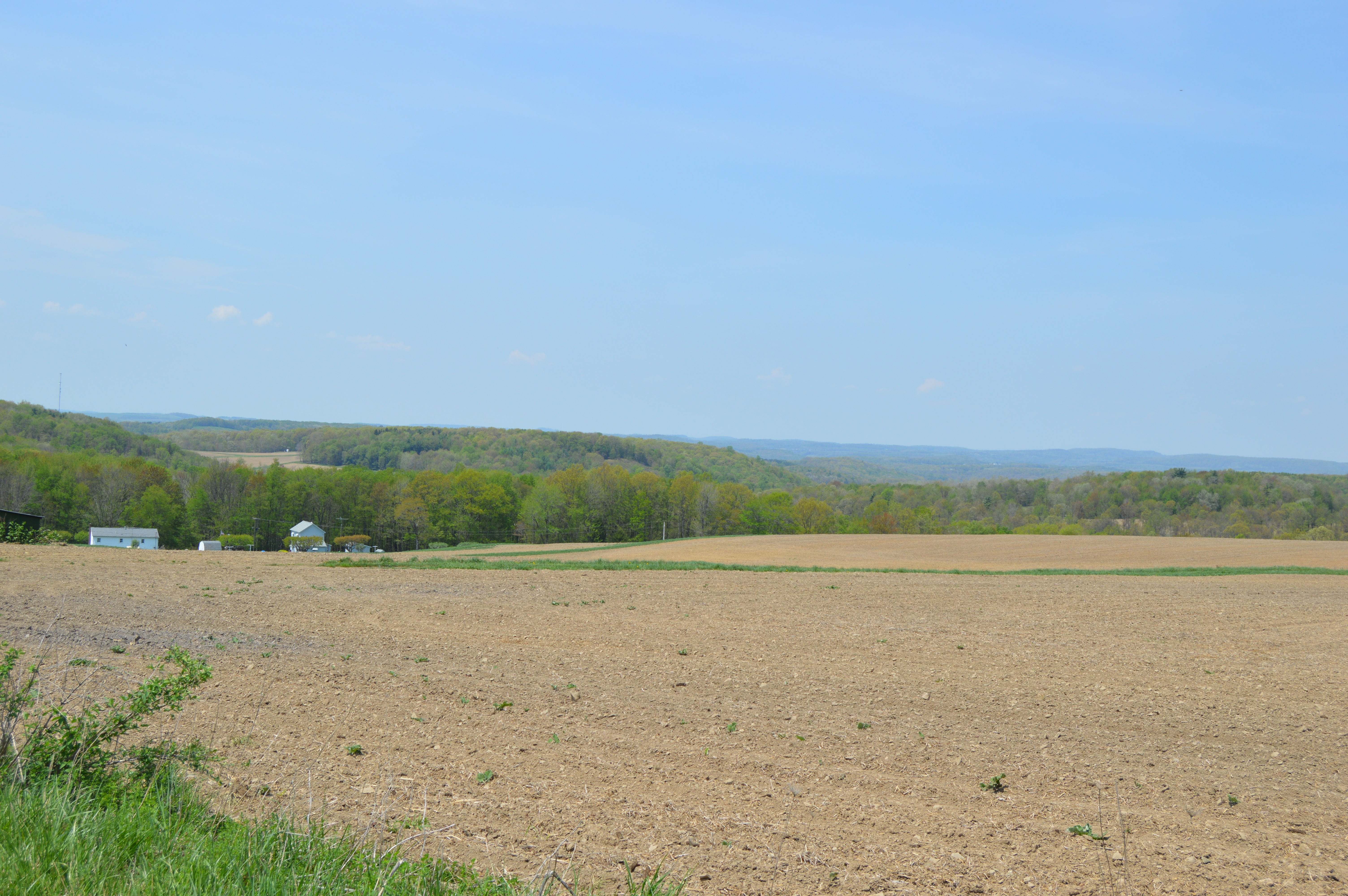 Looking northwest from Steffey Church Road east of Rossiter in Canoe Township, Indiana County, Pennsylvania, United States. Some of the hills in the distance are in Bell Township in Jefferson County.